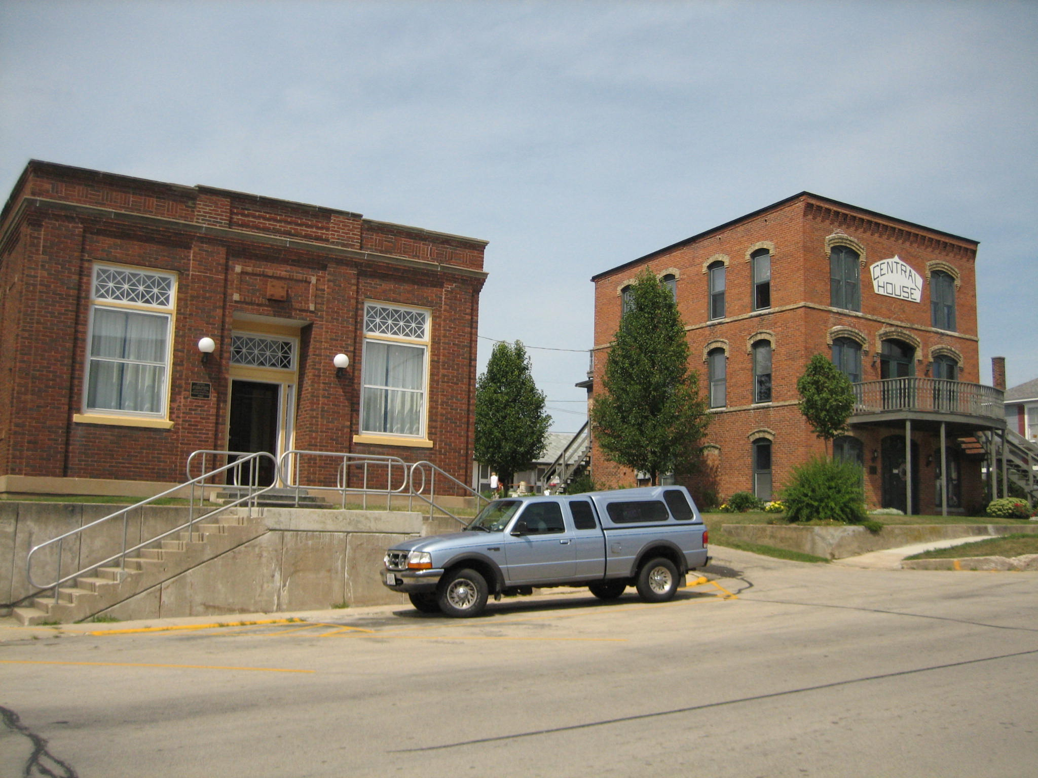 Orangeville, Illinois, USA, from left: People's State Bank and then Central House, both listed on the U.S. National Register of Historic Places.